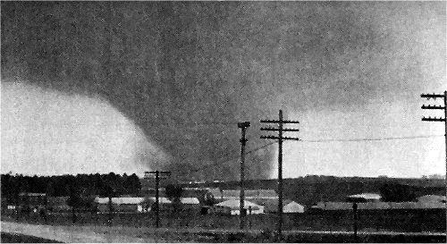 Charles City, 1968 Iowa tornado